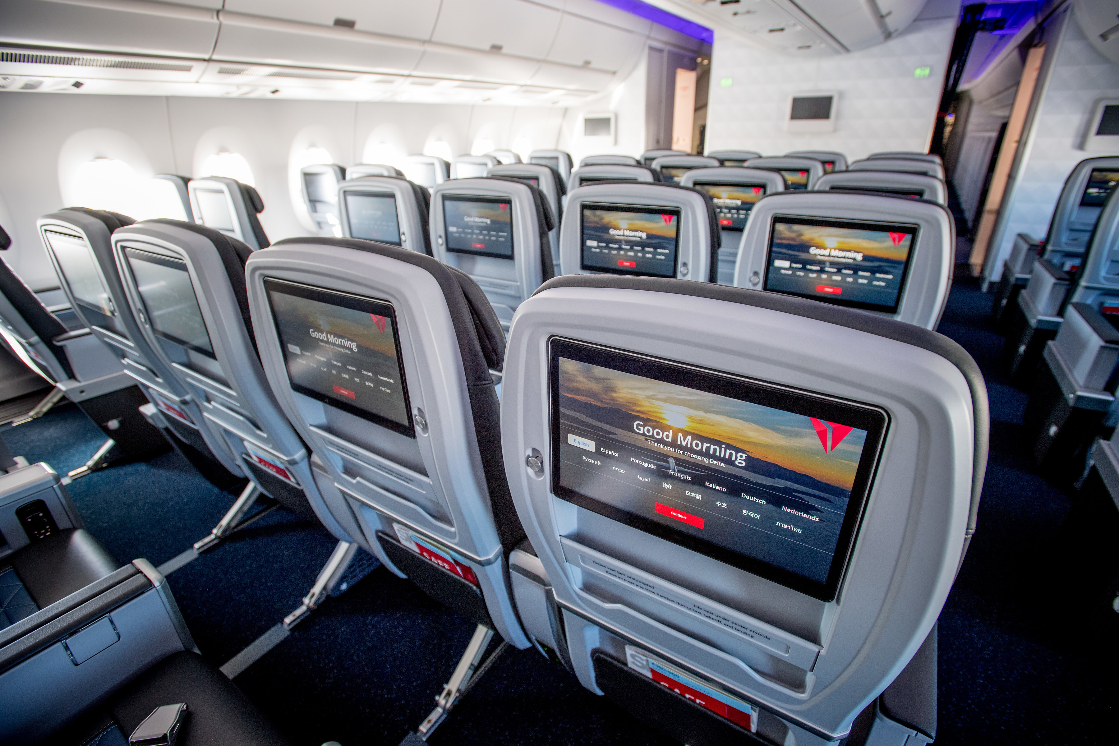 Delta unveils their new Airbus A350 commercial jet to the public at the A350 Media Day at the Delta Flight museum in Atlanta, Ga. on Tuesday, October 17, 2017. (Chris Rank/Rank Studios 2017)